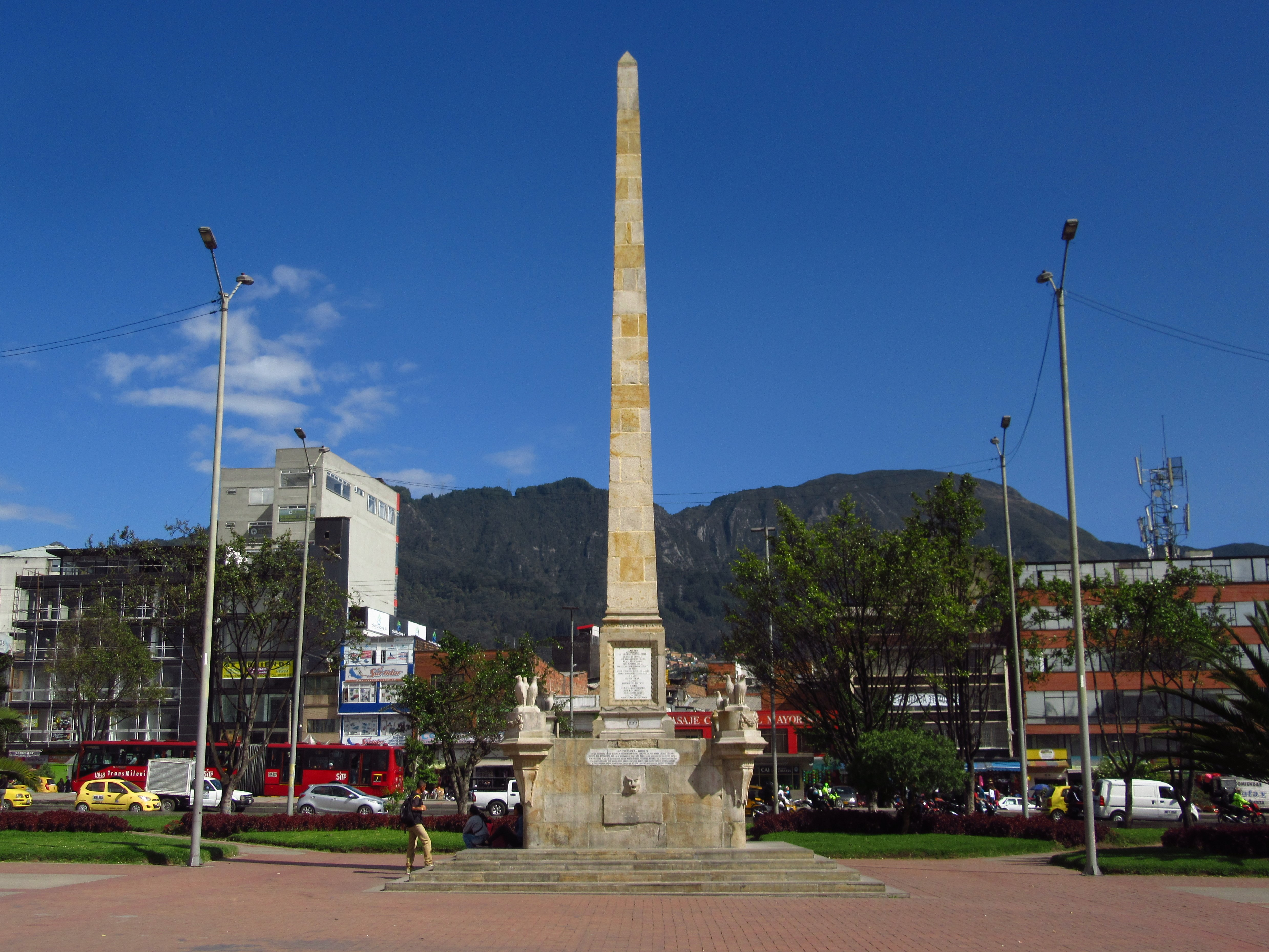 2018 in Bogotá